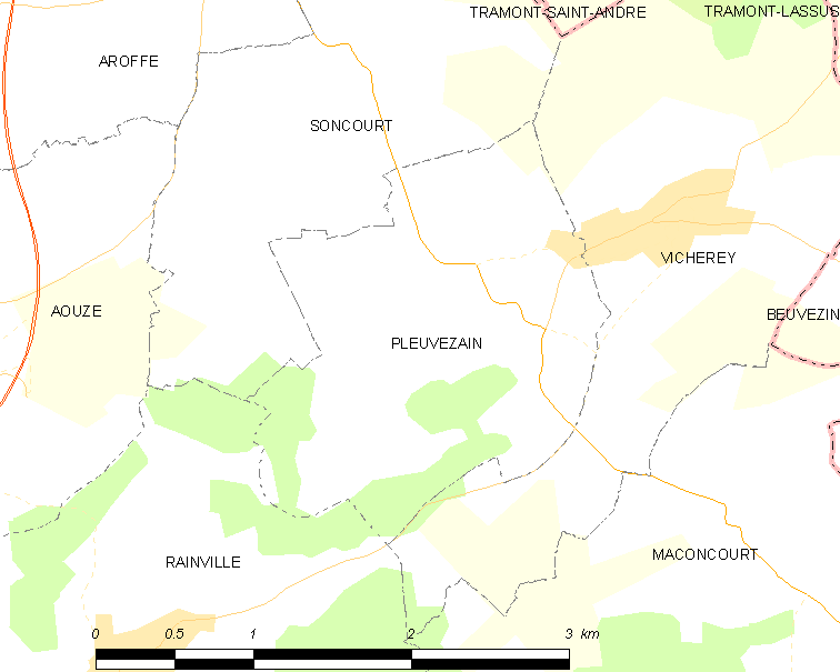 Map of French municipality Pleuvezain